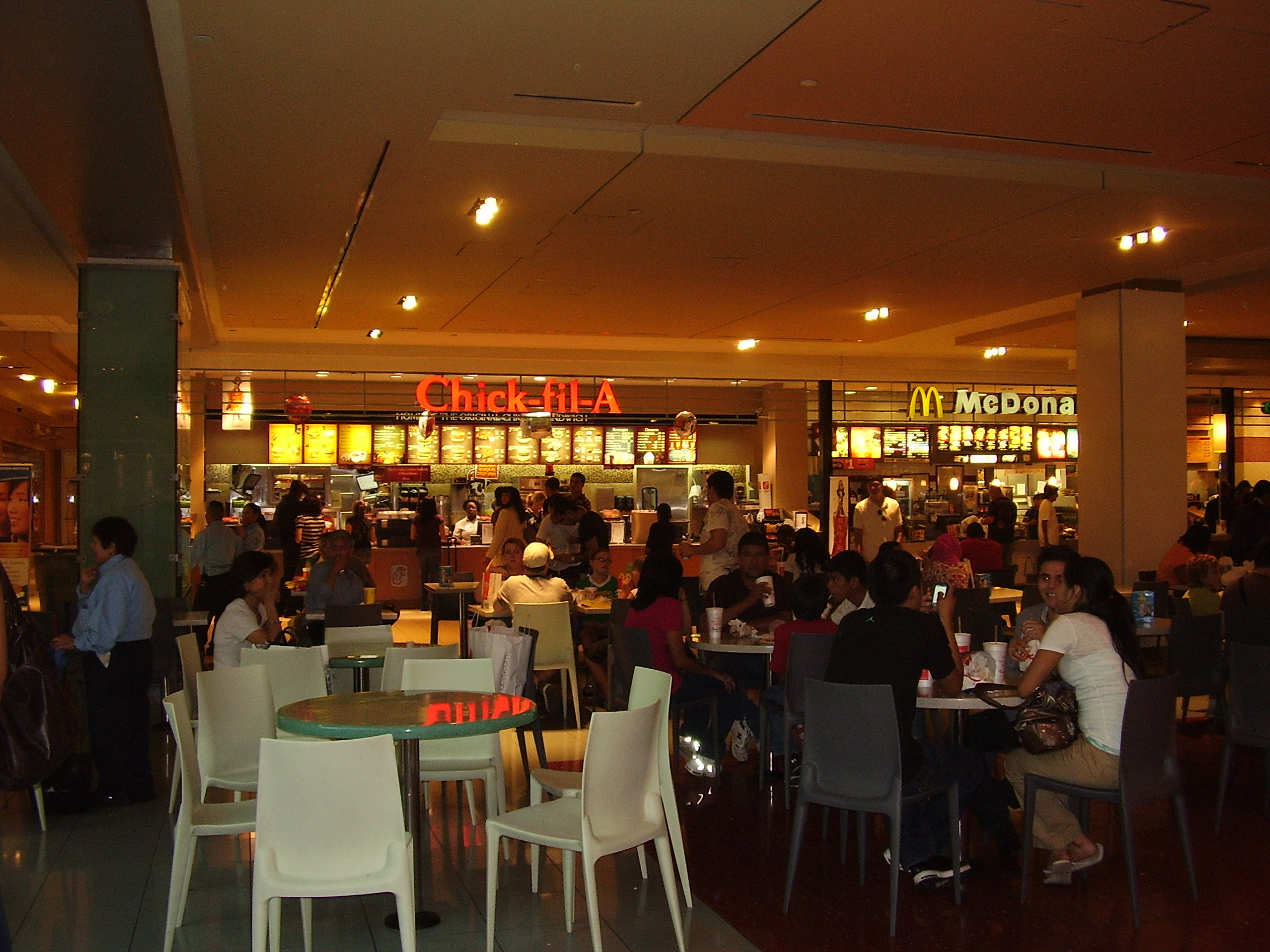 A Chik-fil-A restaurant and a McDonald's restaurant in the Houston Galleria